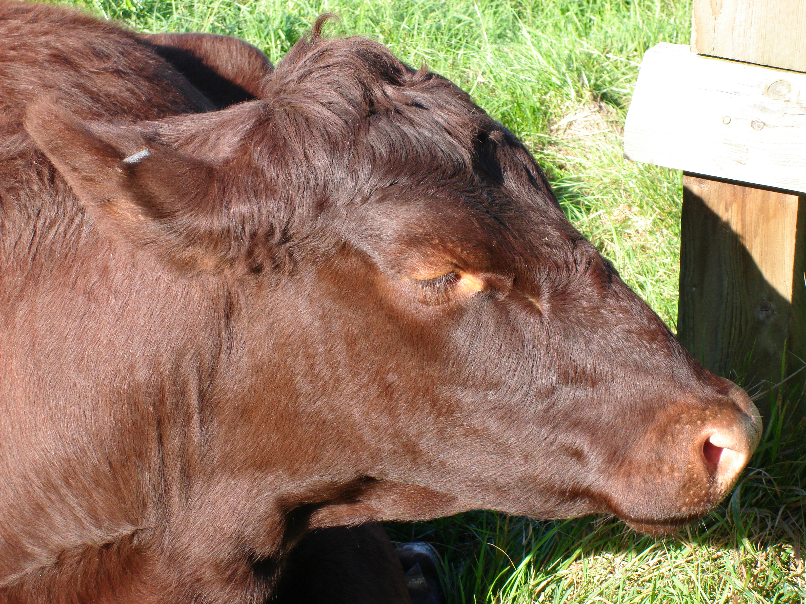 Red Poll bullock "Sid" on Cambridge Midsummer Common